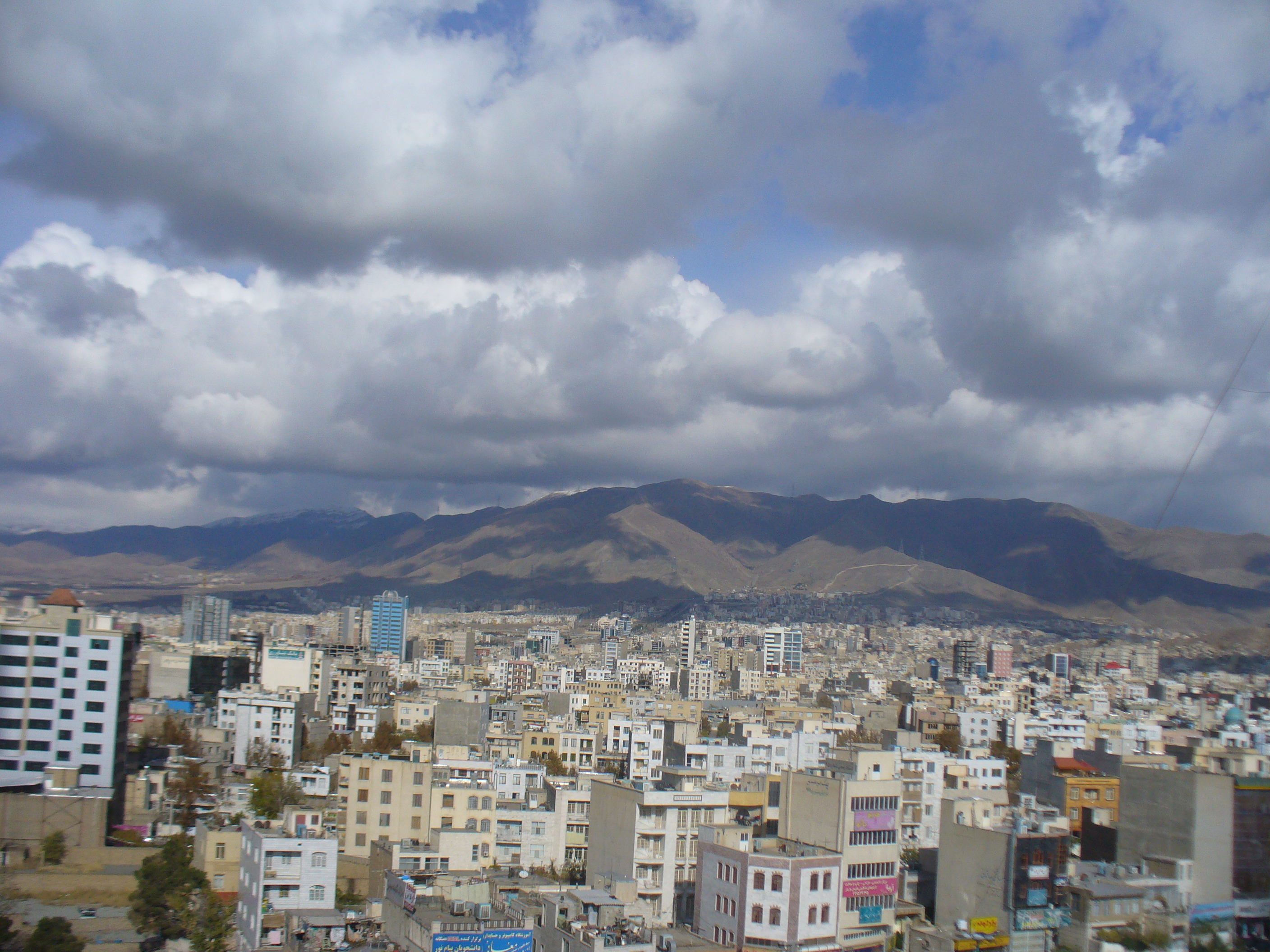 karaj view